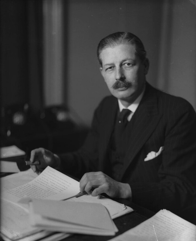 half-plate negative